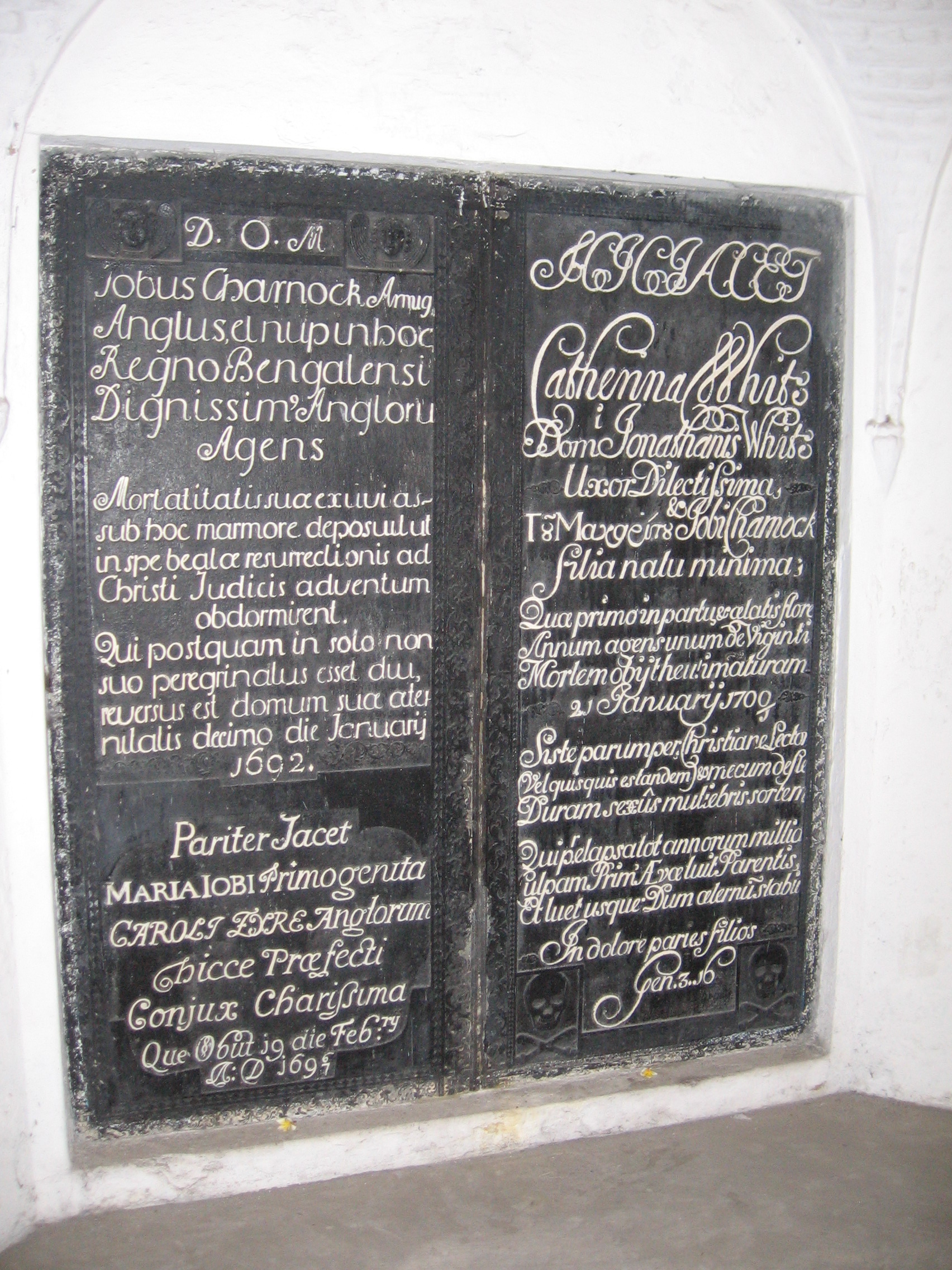 The marble slab in Job Charnock simple mausoleum (in the garden of St John Church, Calcutta)